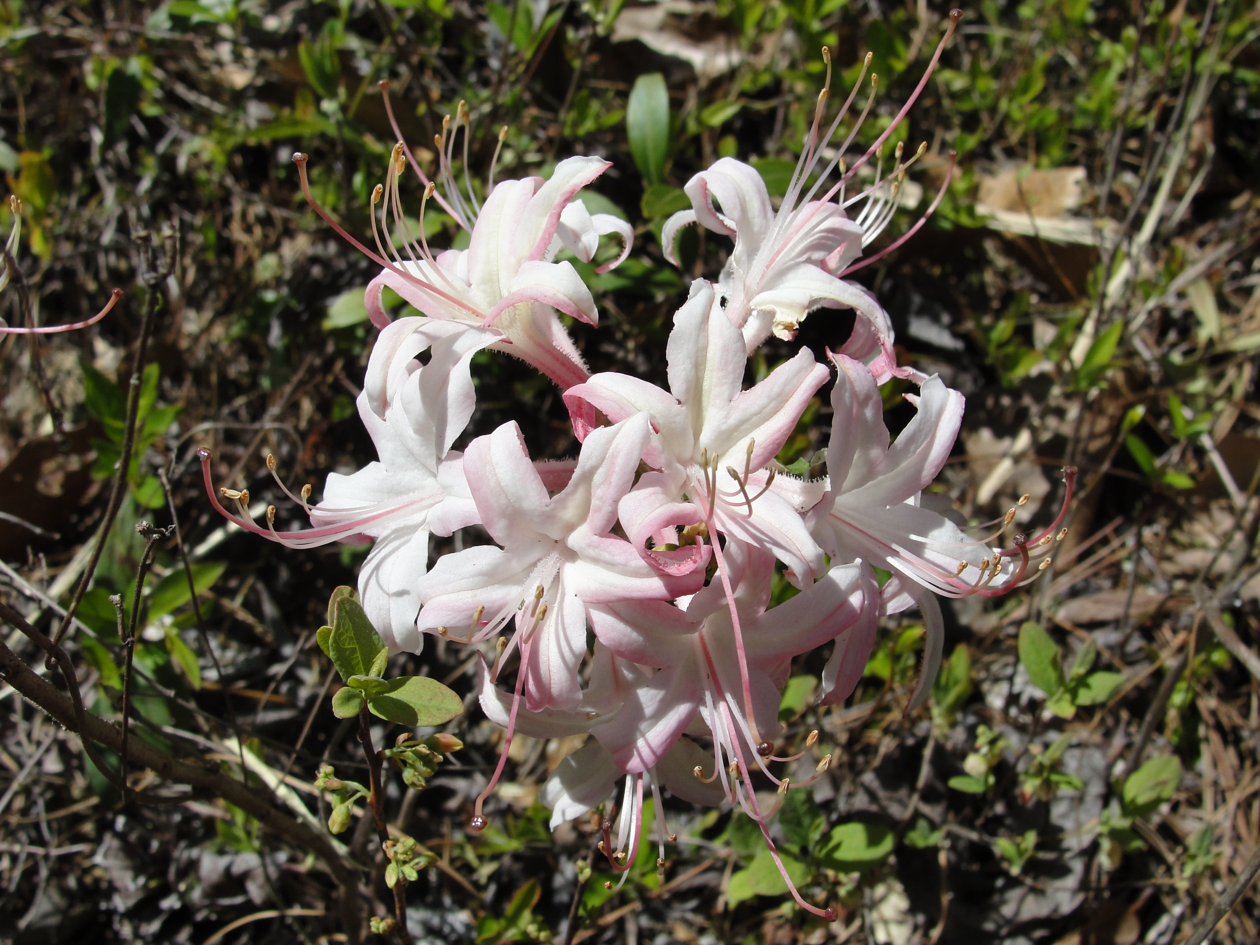 Rhododendron atlanticum from Florence County, SC 2016